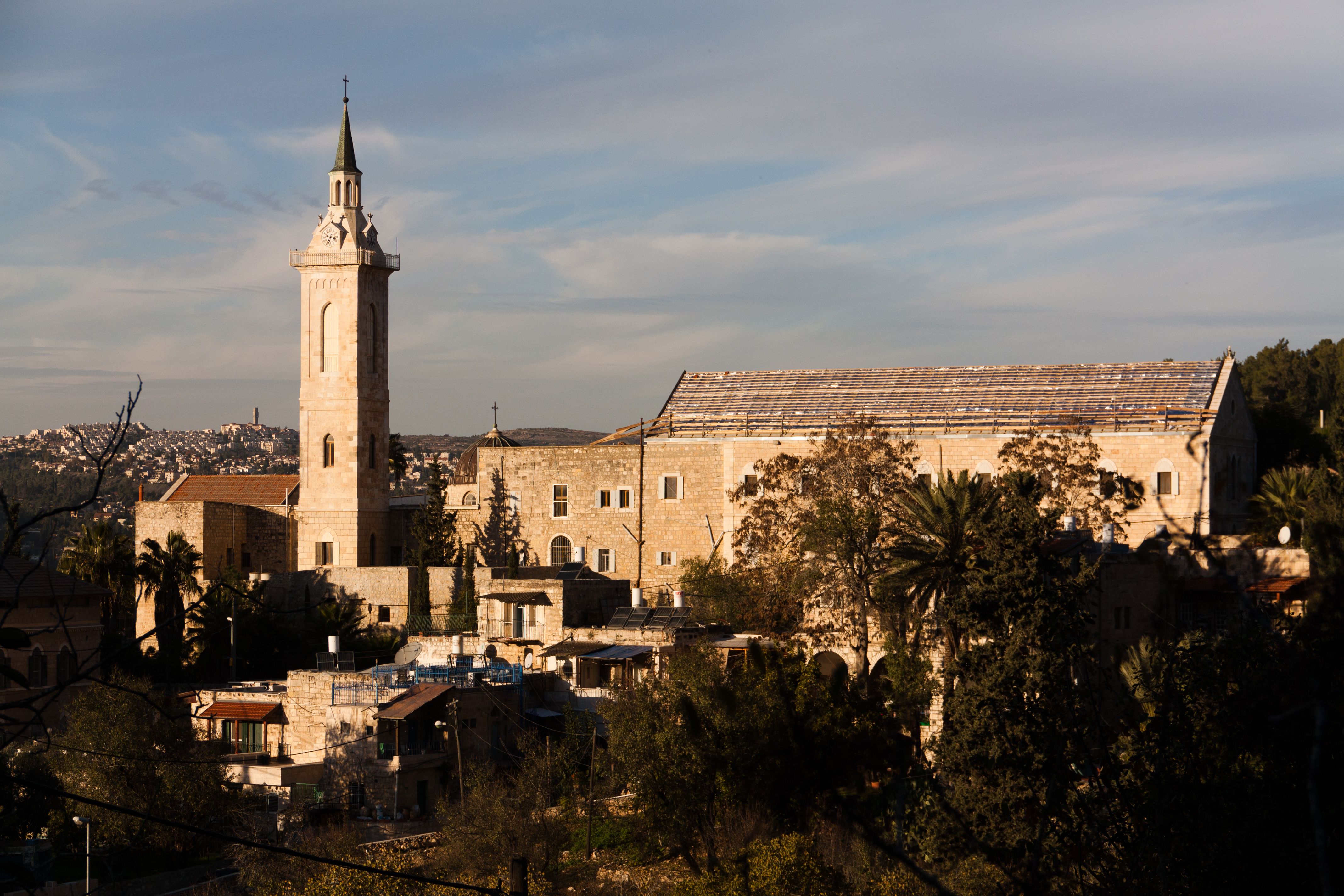 St. John the Baptist in the Mountains